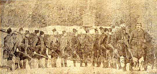 portrait